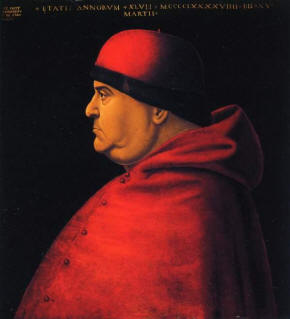 Cardinal Ascanio Sforza (1455-1505)